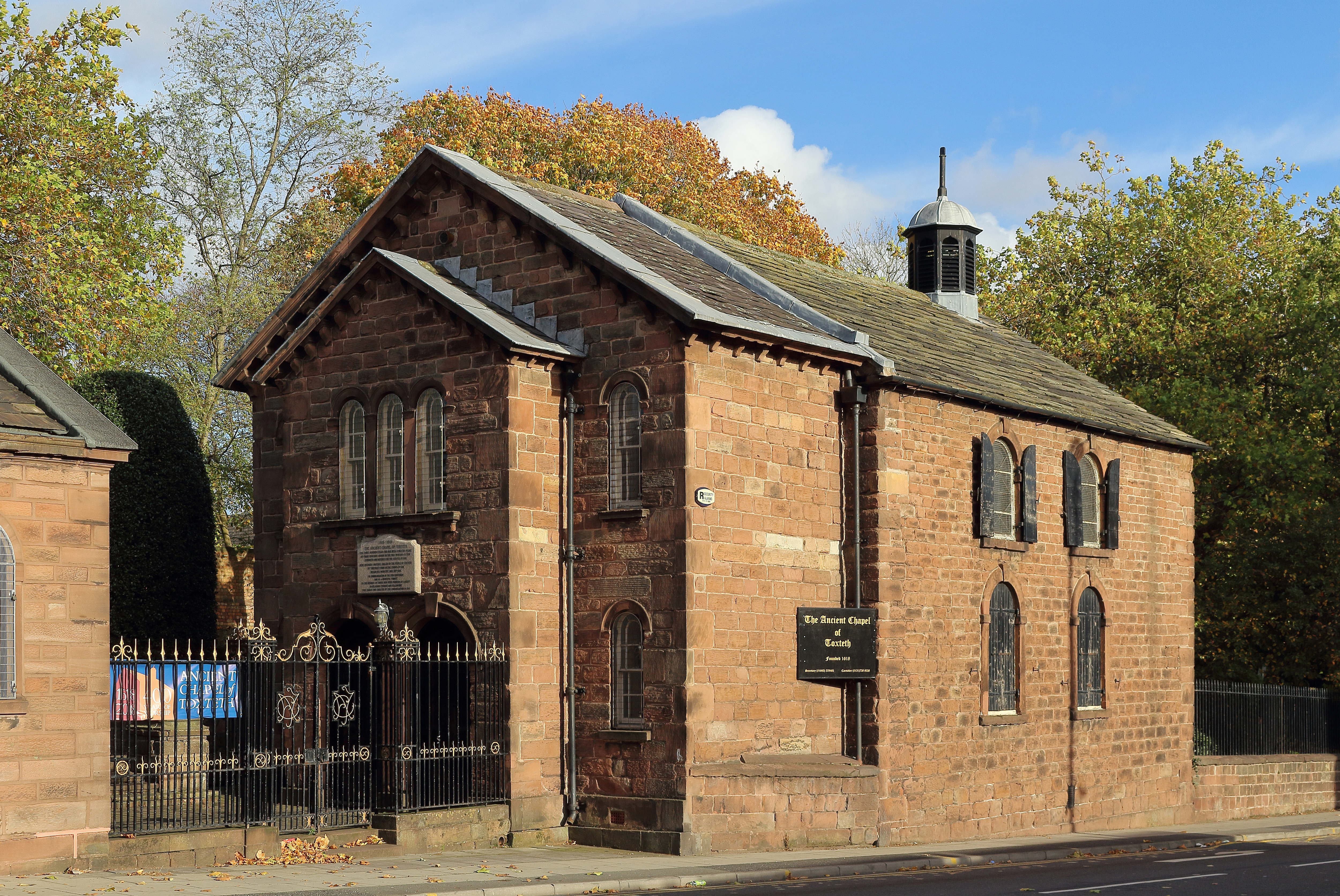 Grade I listed church in Toxteth, Liverpool, dating to 1618. Corner view from across Park Road from Kedleston Street.